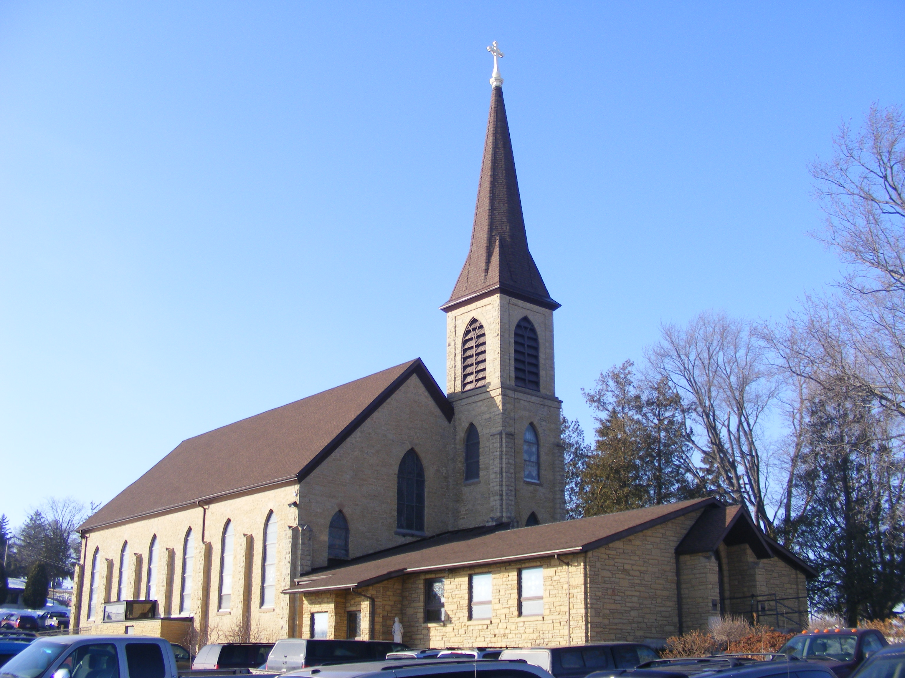 St. Mary's Catholic Church Pine Bluff, WI Large modern entrance vestibule added in 1989. Construction of a present church began in 1888, and it as dedicated on November 27, 1889. The cost of this third, substantially larger Catholic church, built closer to Highway P than the two earlier ones, was $10,728. For the masonry and carpentry work, the contractors,Marty and Stark, received $8,500. Much of the stone used in the previous church was recycled for the new one, as were may of the interior furnishings. A year later in 1890 sixteen stained-glass windows, paid by subscription, were installed. Nearly a century later, in 1989, St. Mary's Parish members instituted a drive to raise funds for bathrooms and a narthex for the church. When their efforts generated only limited success, Jim and Joyce Kalscheur subscribed the cost of the new addition that was dedicated on June 10, 1990.